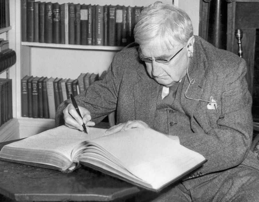 The composer Ralph Vaughan Williams late in life